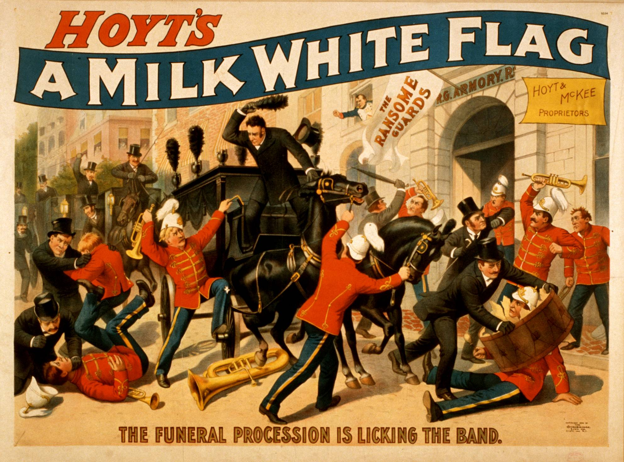 1894 poster advertising Charles Hale Hoyt's play A Milk White Flag.